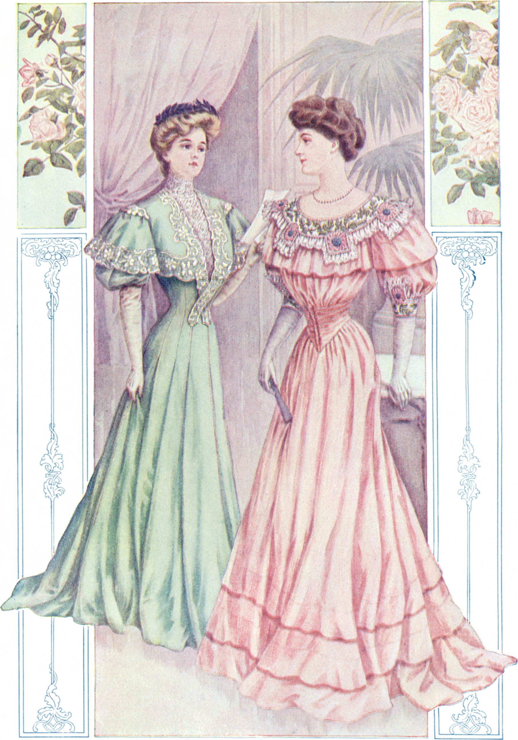 This graceful princess dress (No. 8654) is of Nile-green French voile, with dainty touches of oriental all-over lace and banding on the waist portion. A soft shade of pink Eolienne was used for this charming evening costume (No. 8656), and Persian trimming and Brussels lace afforded adornment.